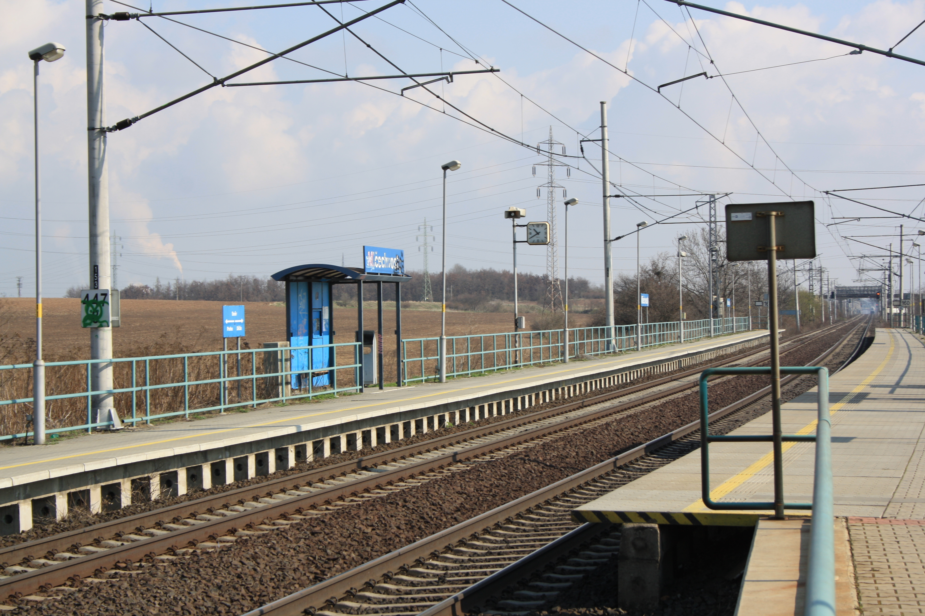 Mlčechvosty train stop, Mělník District. Central Bohemian Region, CZ